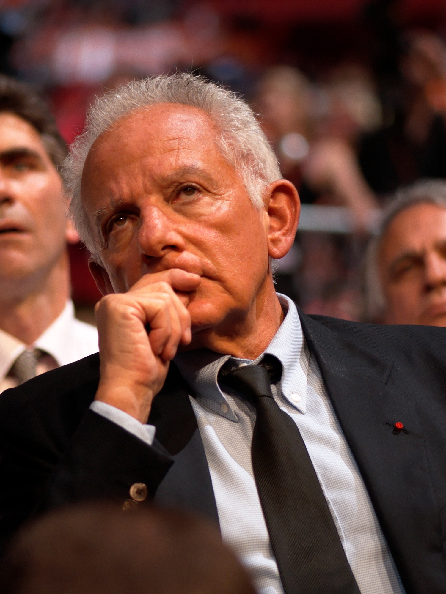 Movie director and producer Marin Karmitz at a rally for François Bayrou, centrist candidate in the 2007 French presidential election, heald on Apr. 18, 2007 at Paris Bercy.